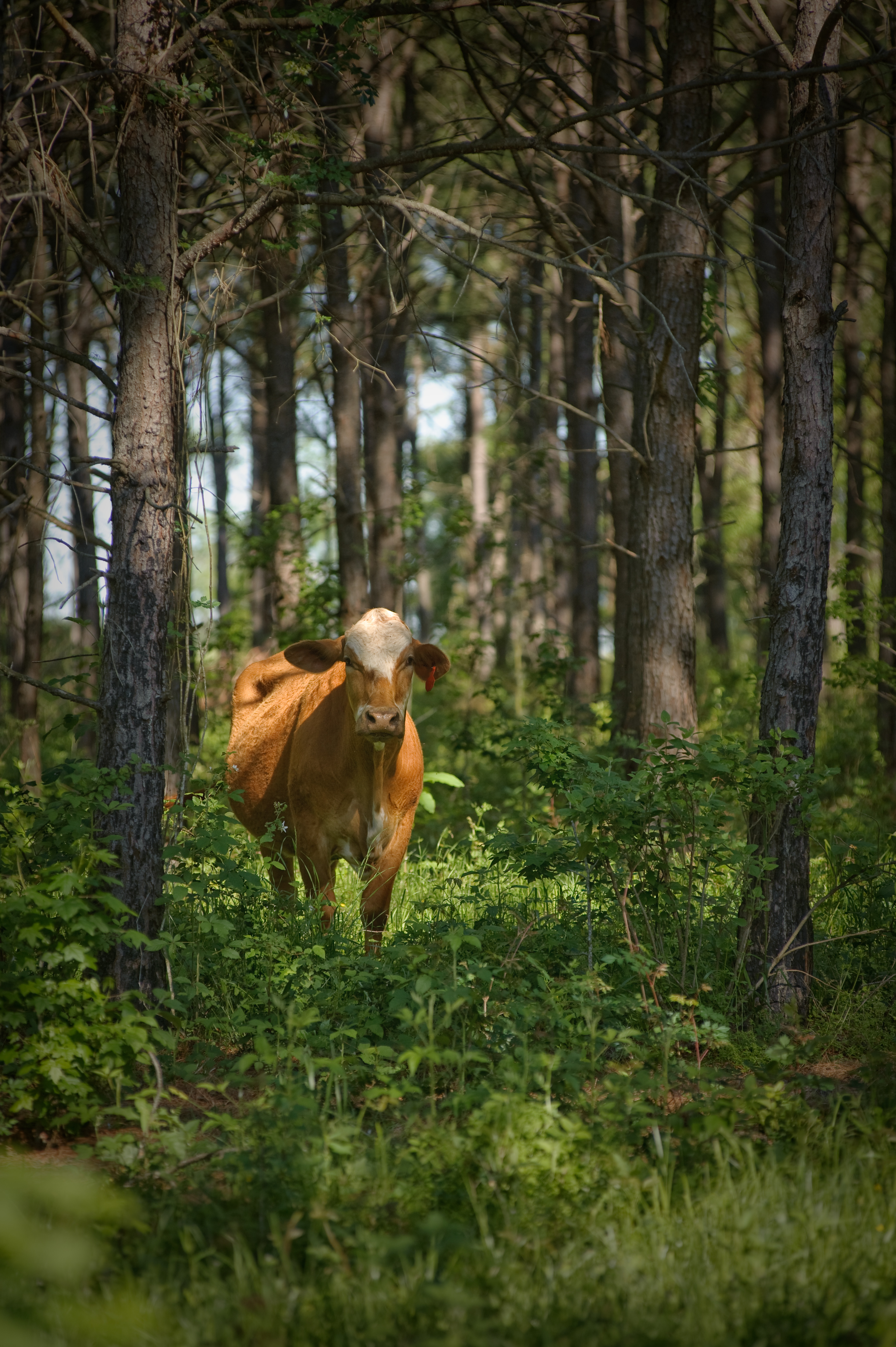 This image or file is a work of a United States Department of Agriculture employee, taken or made as part of that person's official duties. As a work of the U.S. federal government, the image is in the public domain.